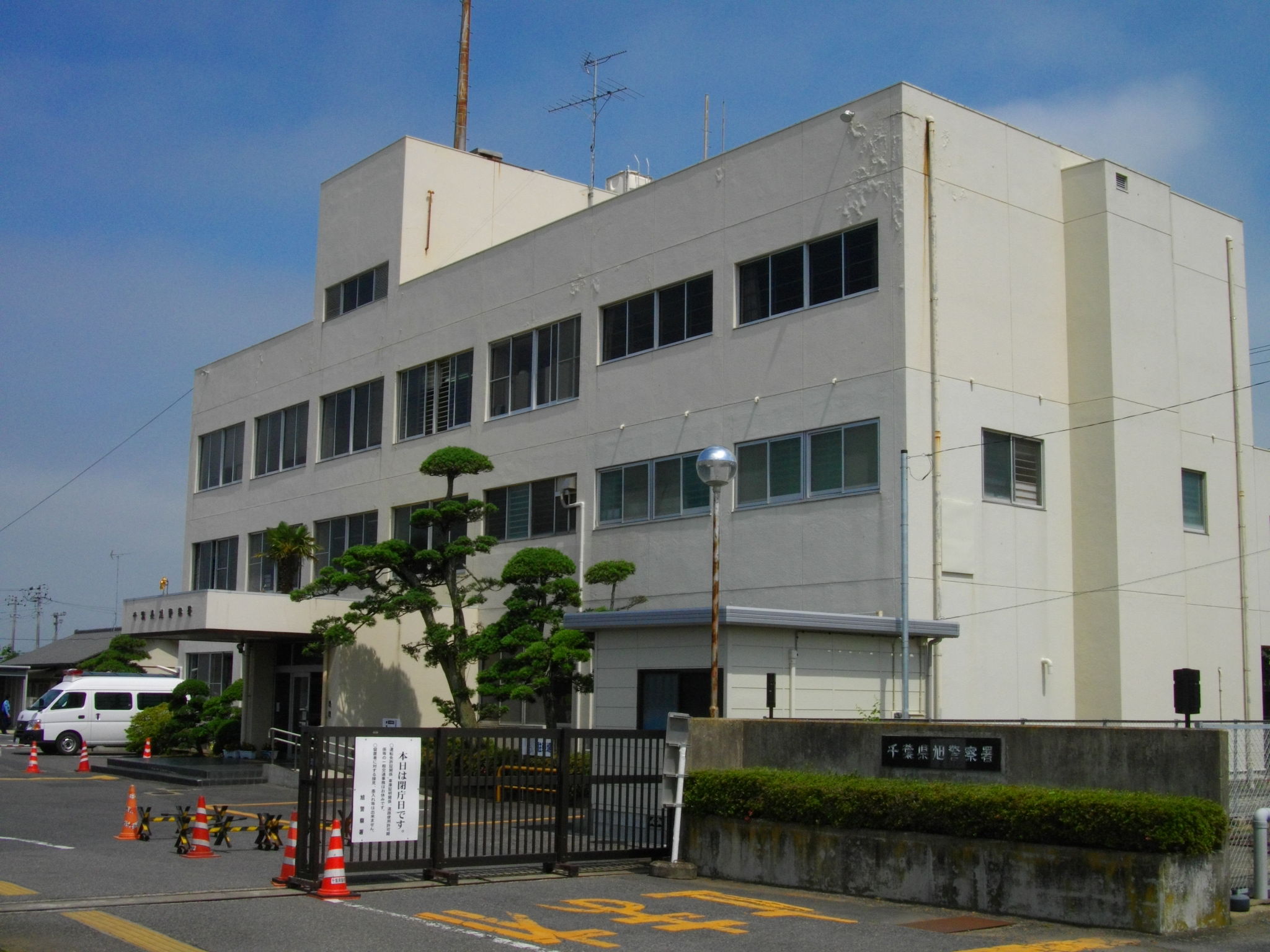 Asahi Police Station (Chiba)